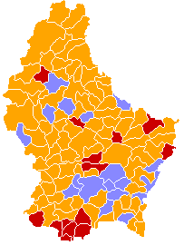 A map of the communes of Luxembourg (prior to the mergers of 1 January 2006) coloured by the plurality party in the 1999 election to the Chamber of Deputies. Orange represents the Christian Social People's Party, red represents the Luxembourg Socialist Workers' Party, and light blue represents the Democratic Party.